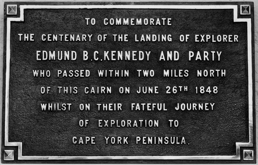 Commemorative stone for Edmund B. C. Kennedy, unveiled at Cardwell, 1948 In 1848 the Assistant-Surveyor of New South Wales, Edmund Kennedy, led an expedition to explore Cape York Peninsula. In the previous year he had discovered the Thomson River and established that the Barcoo River was part of Cooper's Creek. Arriving at Rockingham Bay (north of Townsville) in May, Kennedy's party reached Weymouth Bay, where they established a depot. Kennedy, with four others, Costigan, Dunn, Luff, and a indigenous Australian, Jacky Jacky, left this depot in an endeavour to reach Cape York, where a relief ship was expected.